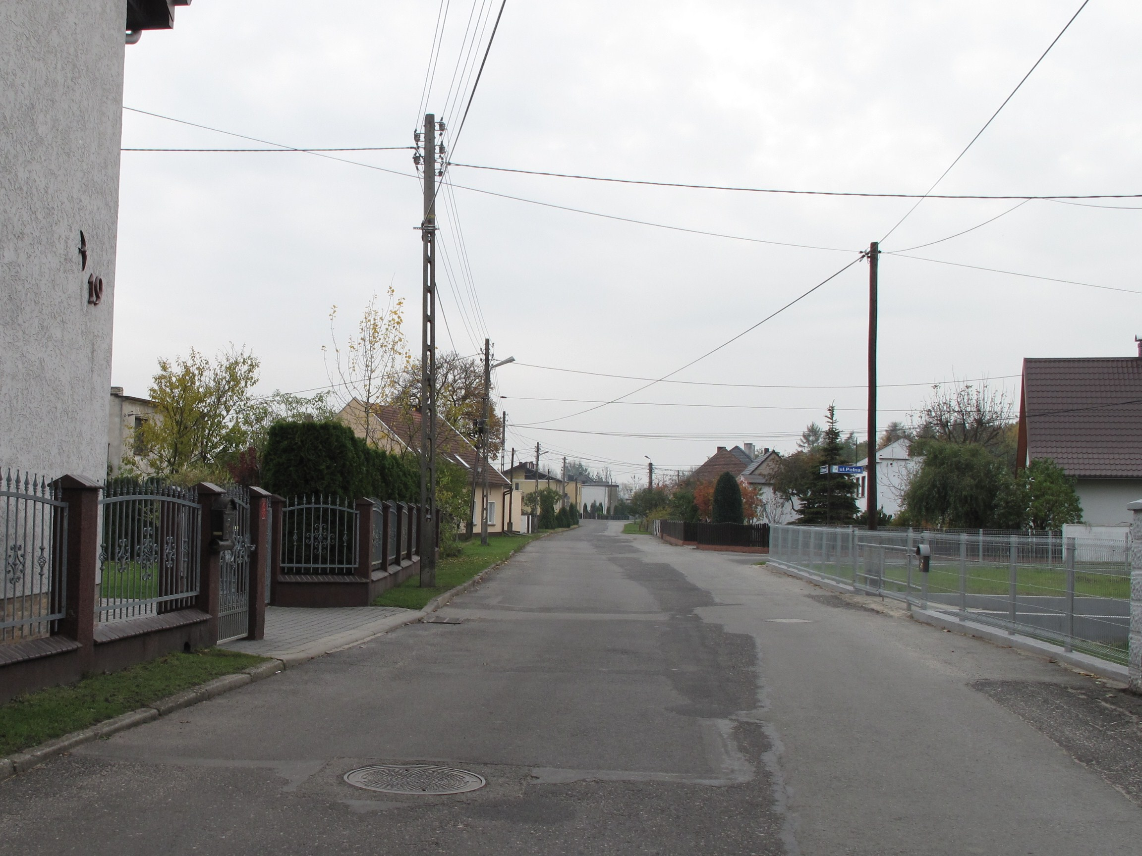 Rożniątów. Strzelce County, Poland